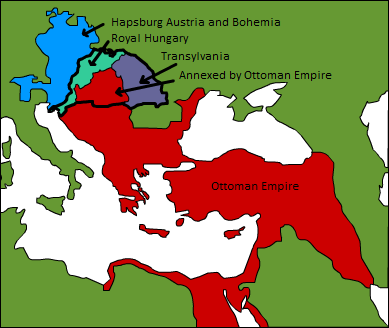 A map displaying position of the Kingdom of Hungary before 1526, and the 3 parts into which it was divided after the Battle of Mohács: Royal Hungary, Transylvania, and the part that was annexed by the Ottoman Empire. Category:Maps of the history of Hungary